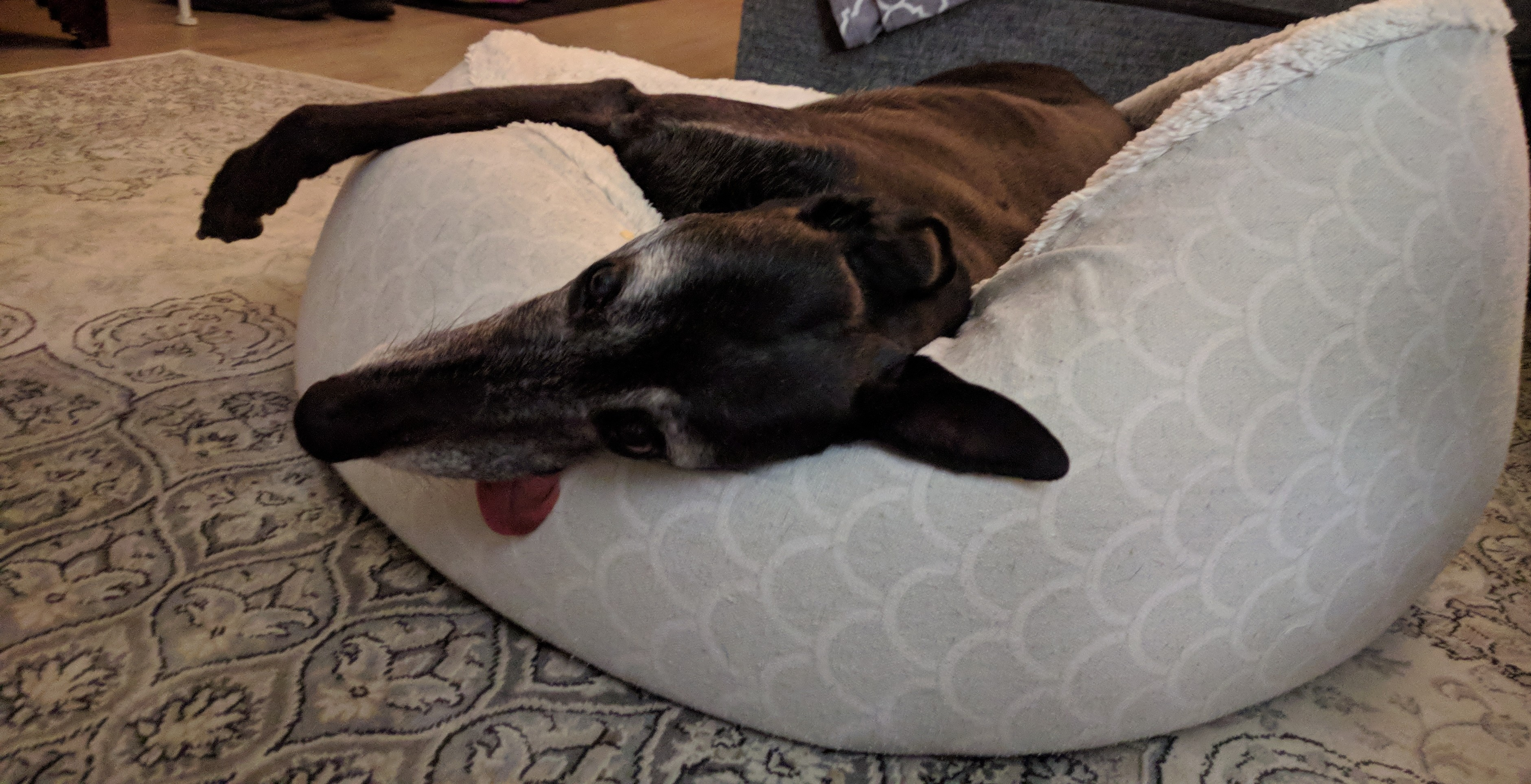 Camera photo from a LG Nexus